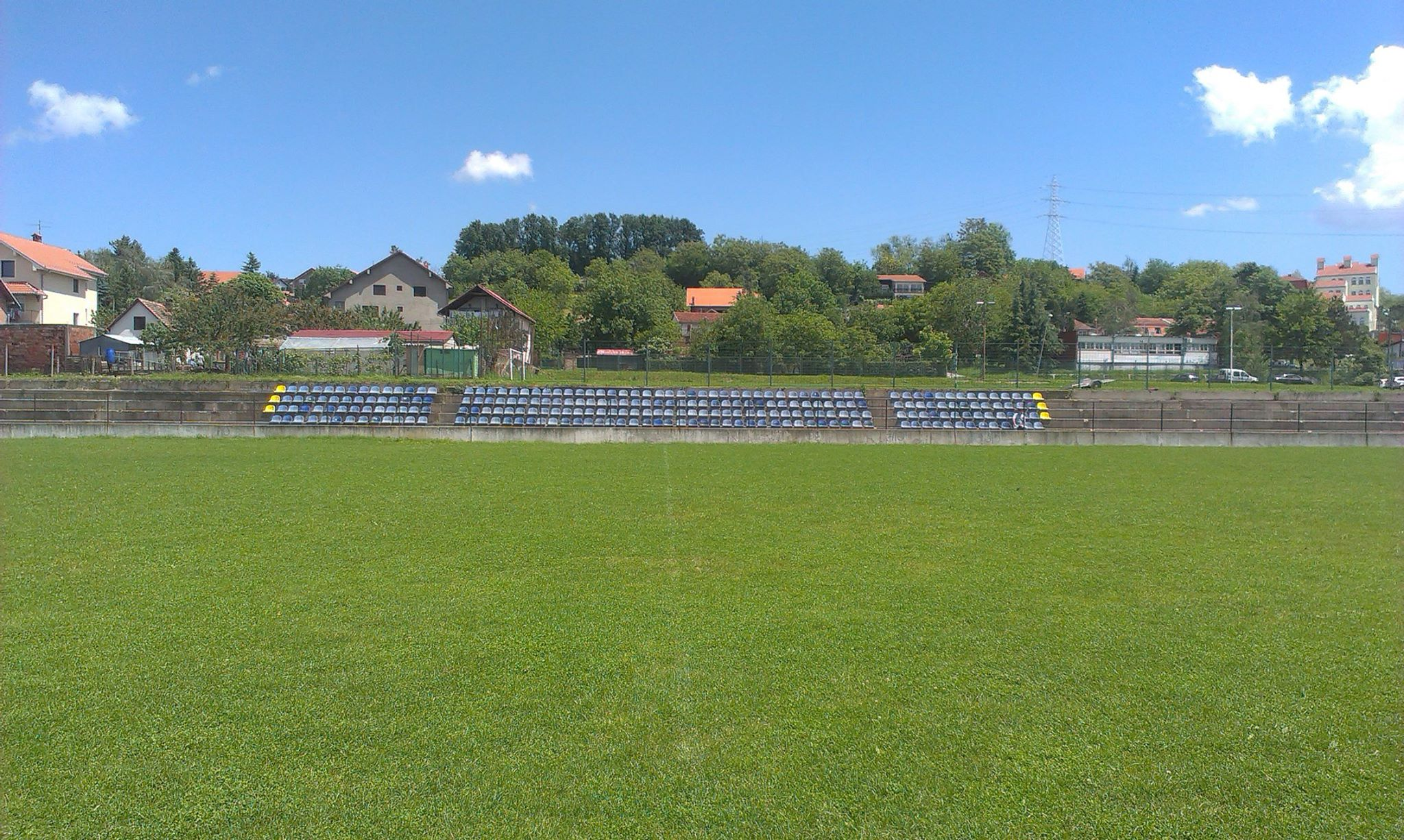 Stadion "FK Heroj"